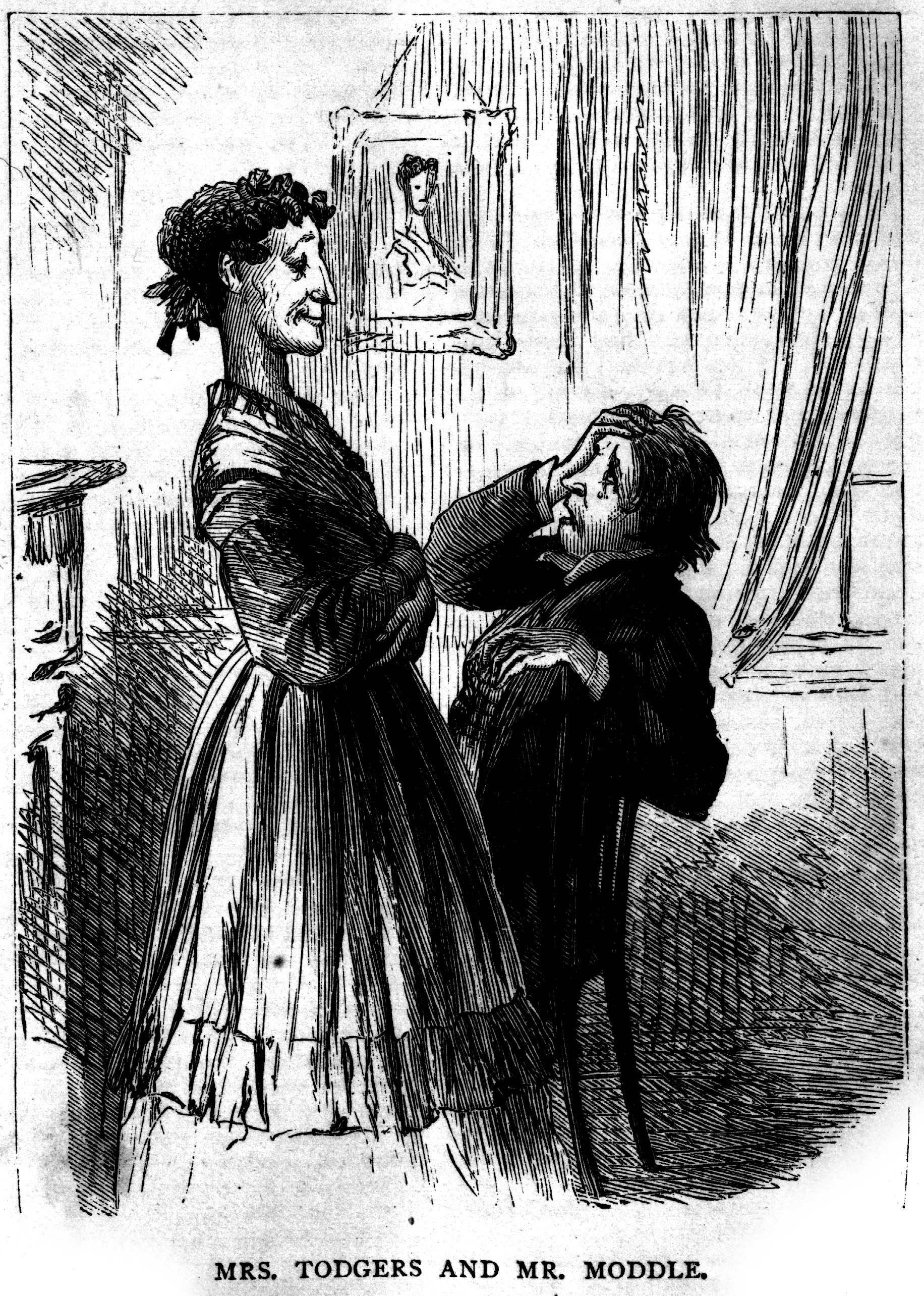 Illustration from 1867 U.S. edition of Martin Chuzzlewit. Page 294. "Mrs. Todgers and Mr. Moddle"